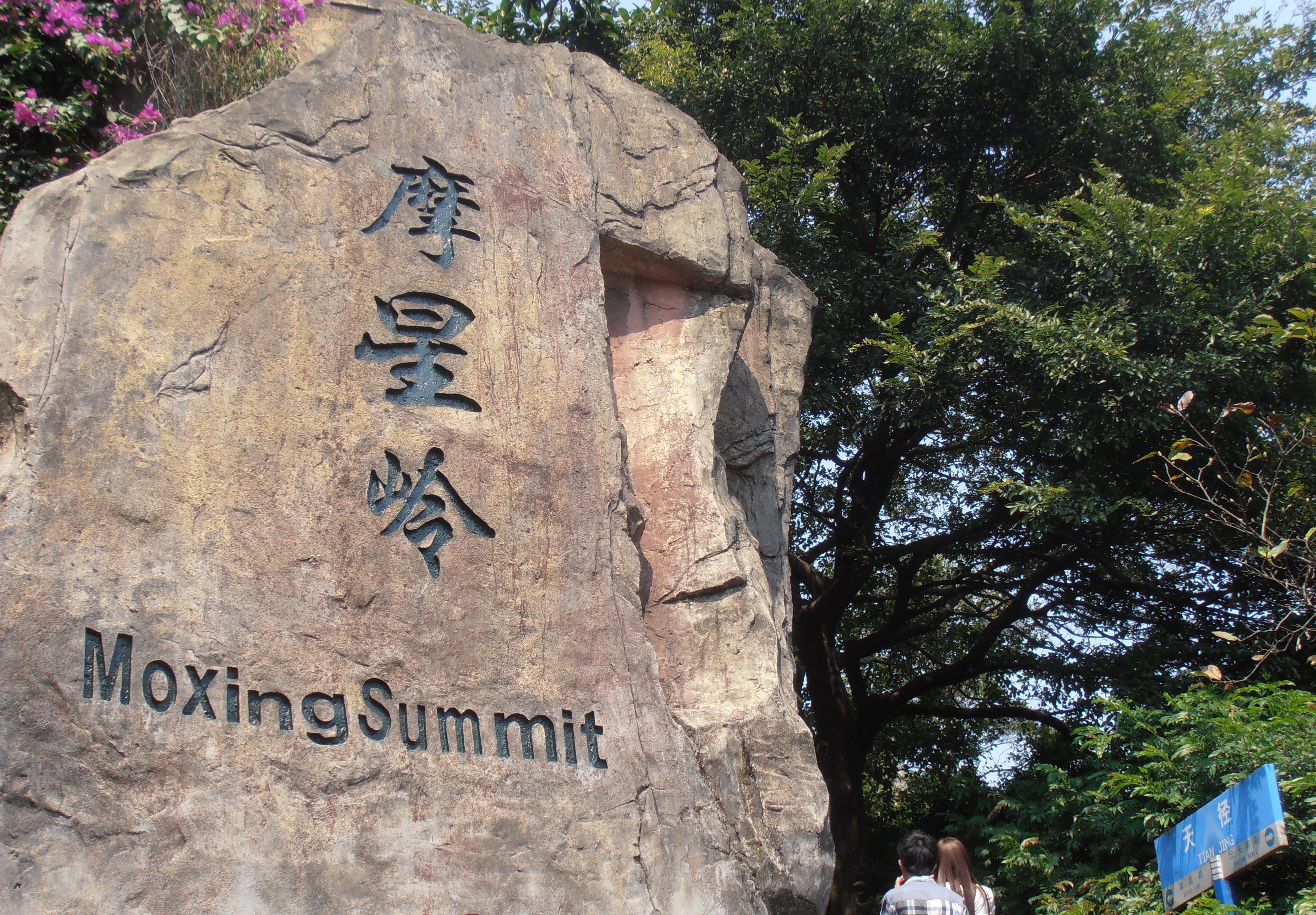 Moxing Summit